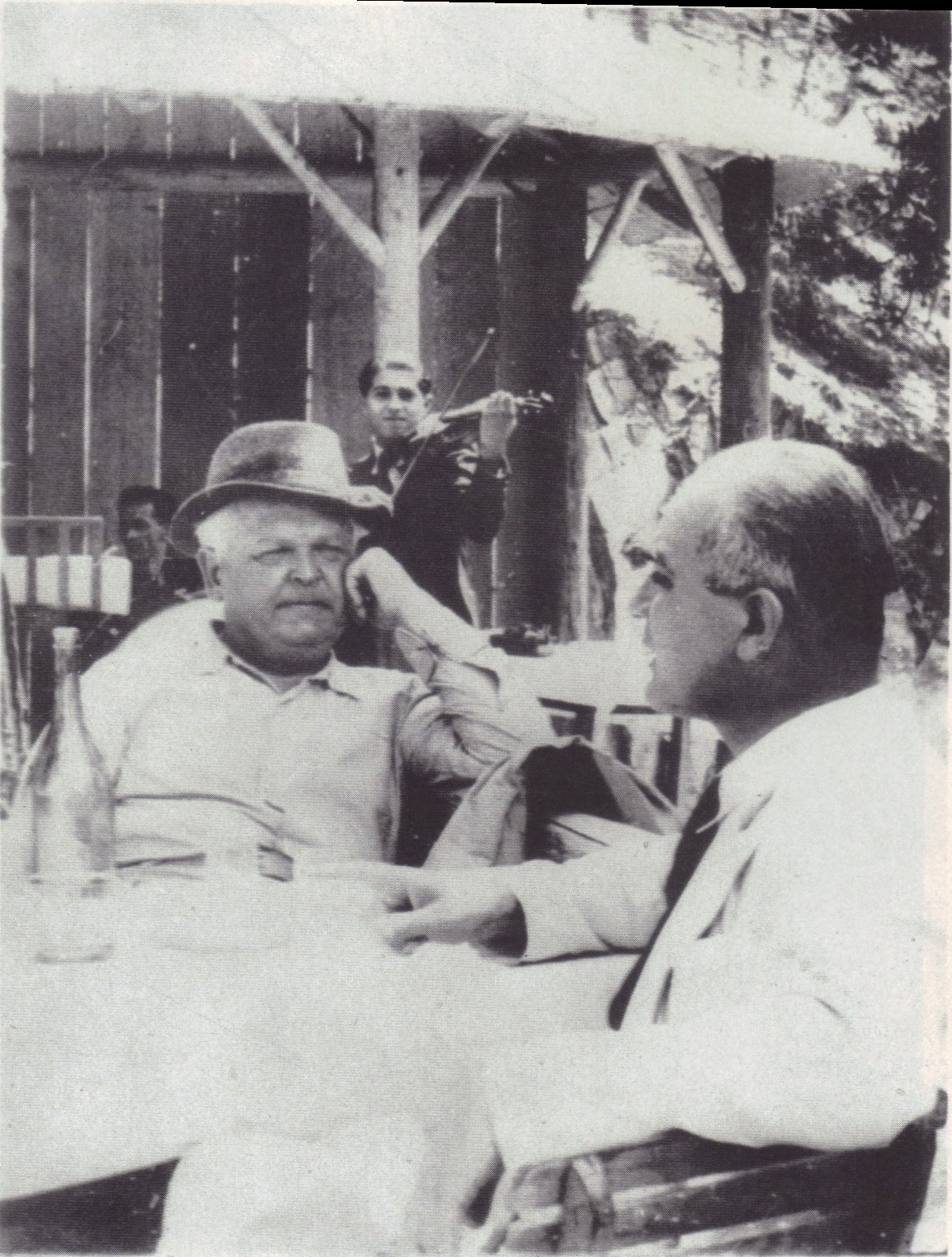 Romanian writer Mihail Sadoveanu (1880-1961) with professor Grigore T. Popa (1892-1948).